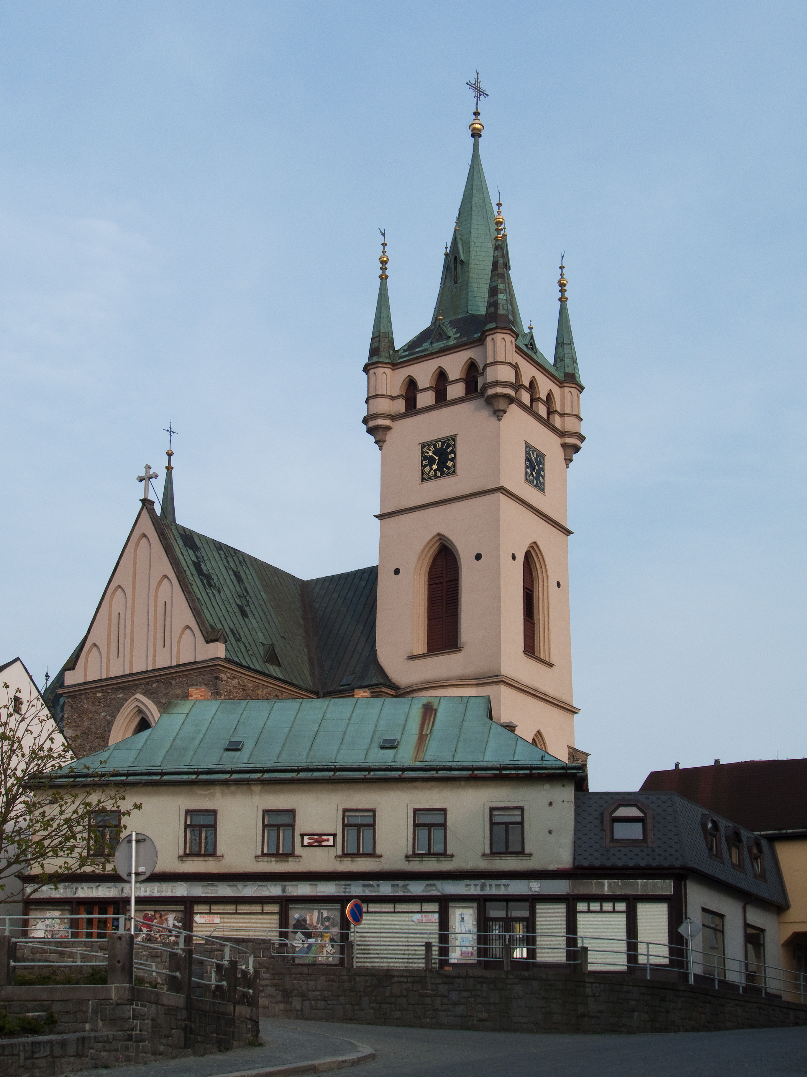 St. Nicolas Church in Humpolec, Pelhřimov District, Czech Republic